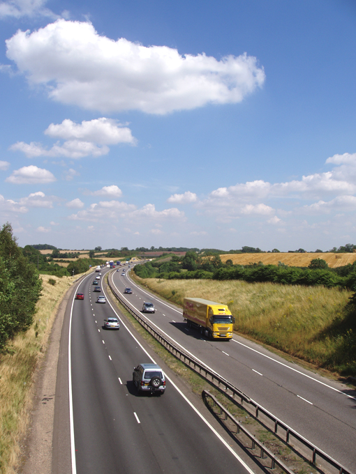 A42 (road) in Northwest Leicestshire, Looking north bound towards restricted junction 14.